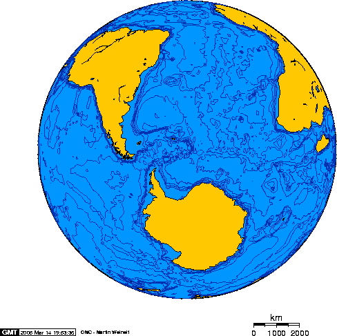 Orthographic projection centred on the South Sandwich Islands